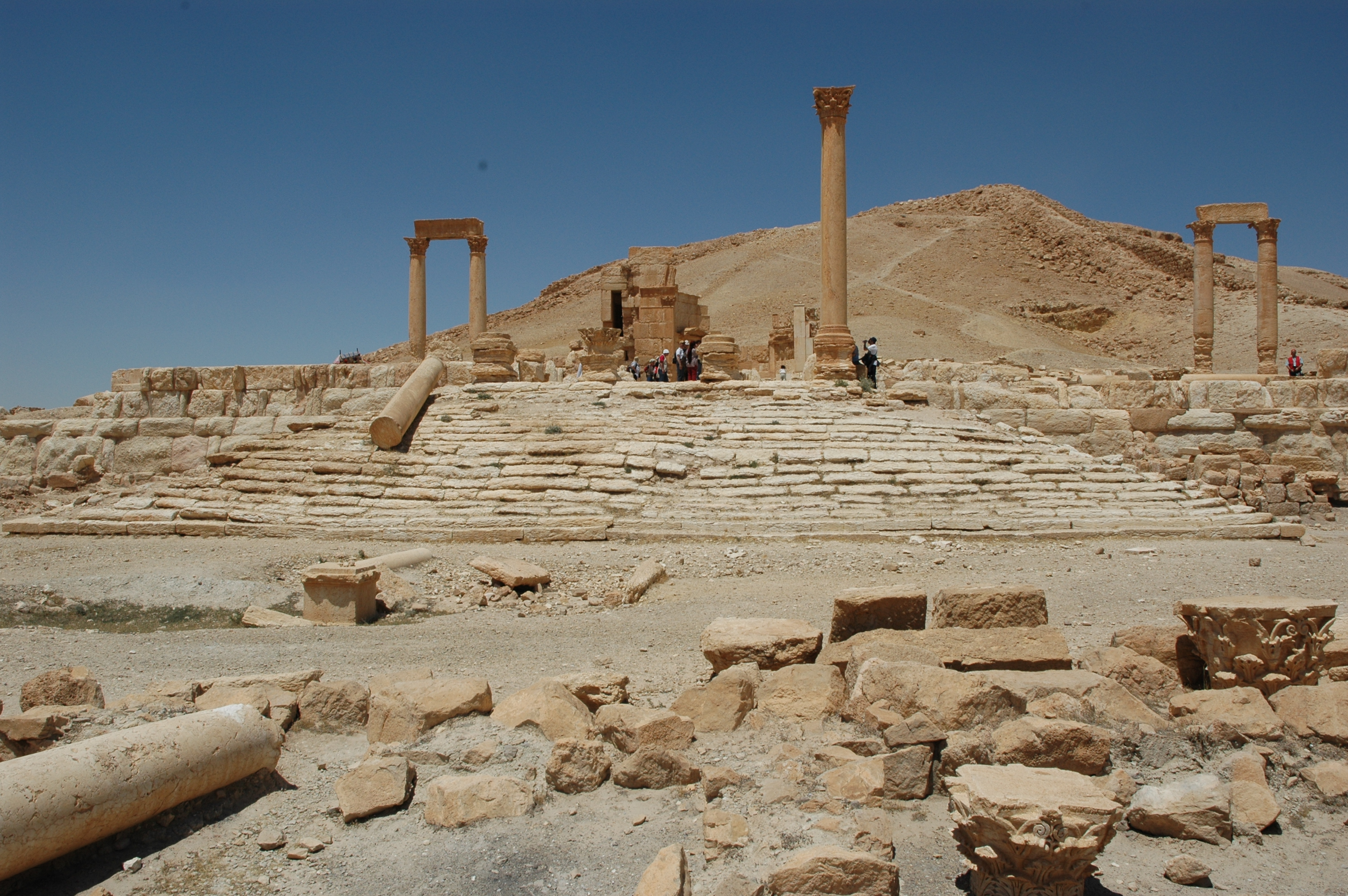 Temple of the goddess Allat, Palmyra in 2004